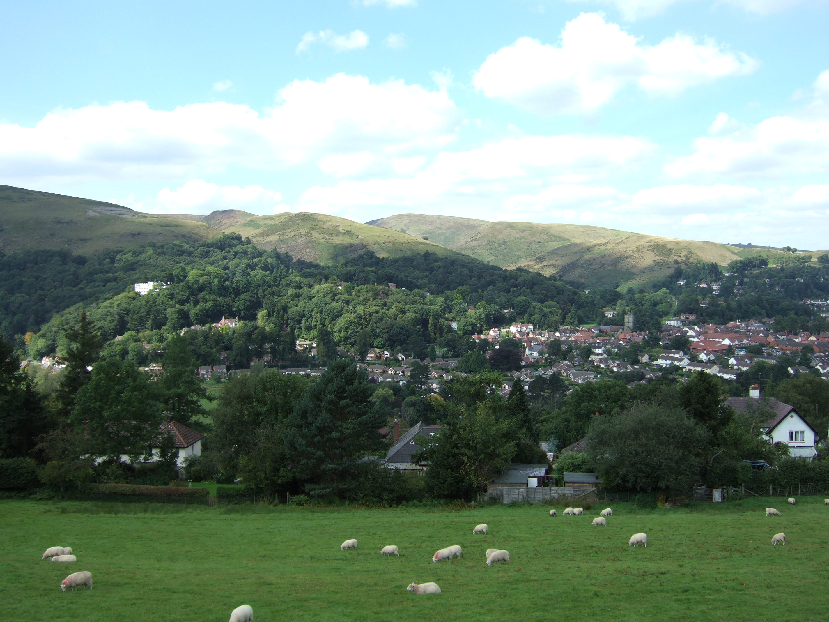 The town of Church Stretton, in Shropshire, England. The Long Mynd Hotel can be seen to the left. The photo was taken from halfway up the Ragleth Hill